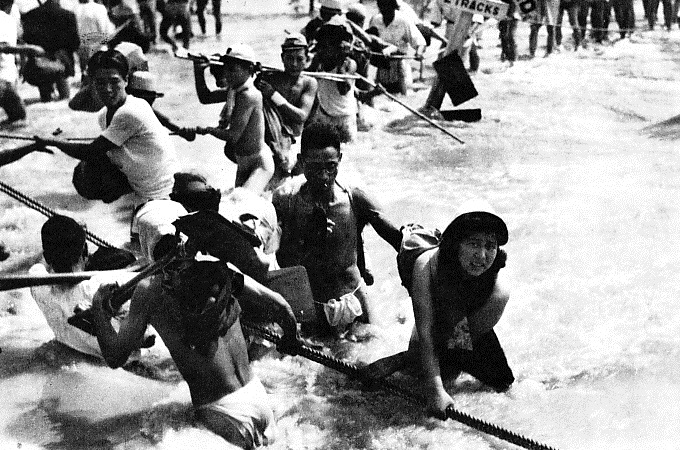 1947 Typhoon Kathleen damage at Koiwa